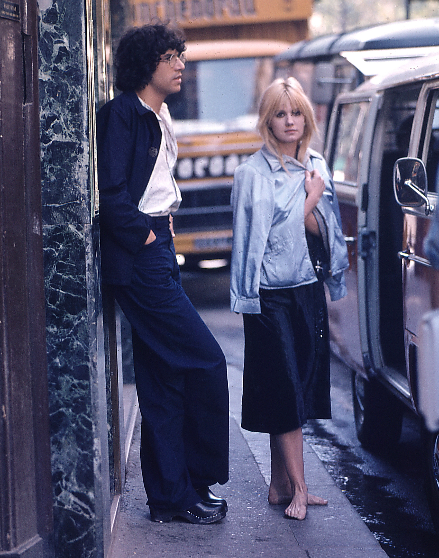 Miou-Miou with Julien Clerc during the filming of "D'Amour et d'eau fraîche" in 1975